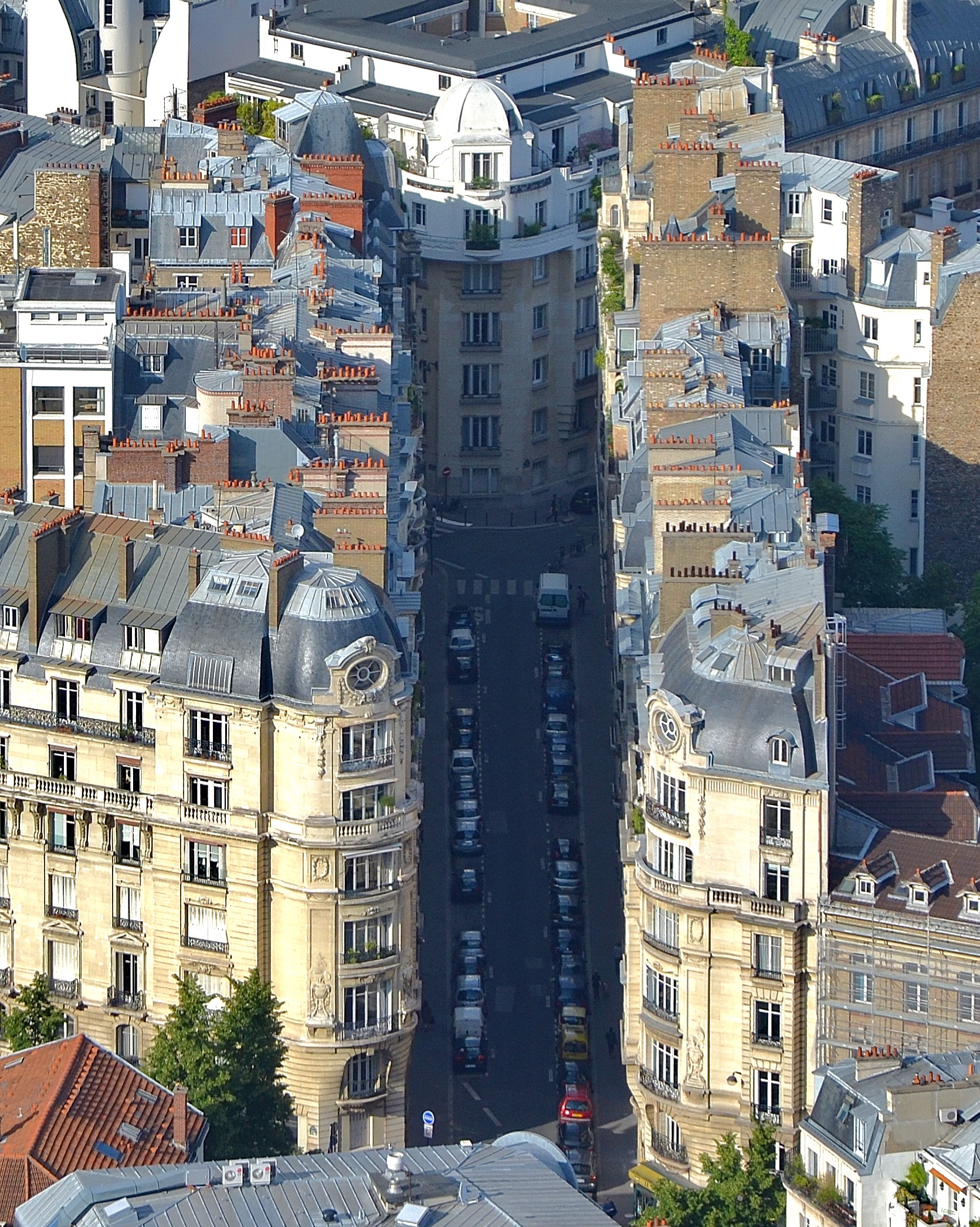 Rue Huysmans in Paris, seen from the Montparnasse tower.